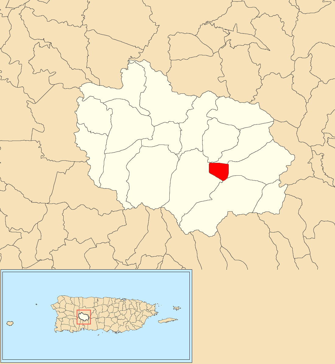 Adjuntas barrio-pueblo, Adjuntas, Puerto Rico locator map